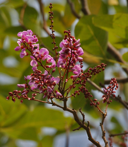 Moulmein Rosewood Millettia peguensis in Kolkata, West Bengal, India.